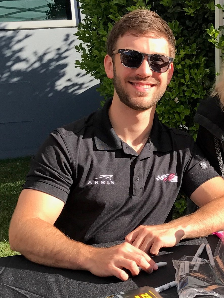 Daniel Suárez at JGR Fan Day October 6, 2017 in Huntersville, NC